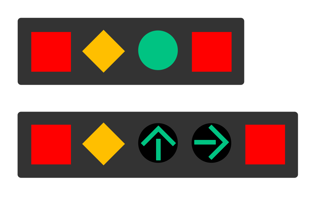 Traffic light arrangement and aspect in Canadian Province of Quebec And The Maritime Provinces